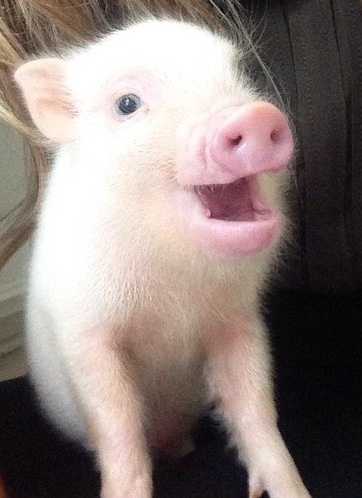 Cropped version of original